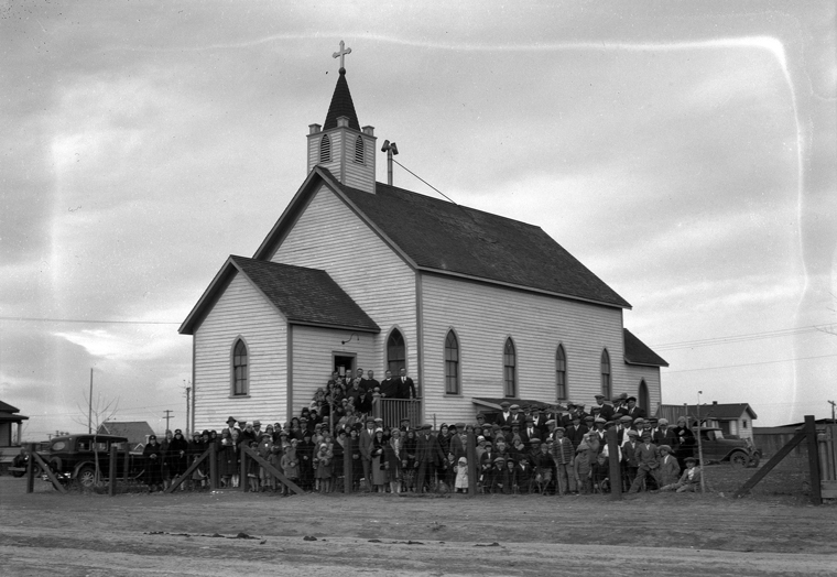 1930 Parishioners outside Our Lady of Lourdes Roman Catholic Church in Hardieville. Parishioners were families of miners of various origins, Polish, Italians, Hungarians, Slovacks. After the mine closed people moved away and the church building was moved to Coaldale. To obtain high quality and larger reproductions of this image please visit the Galt Museum & Archives website: and include thIs number in your request: P19911000383